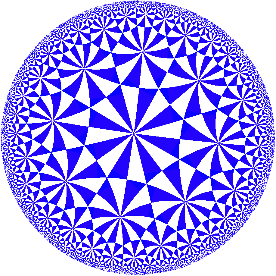 Order-3_octakis_octagonal_tiling